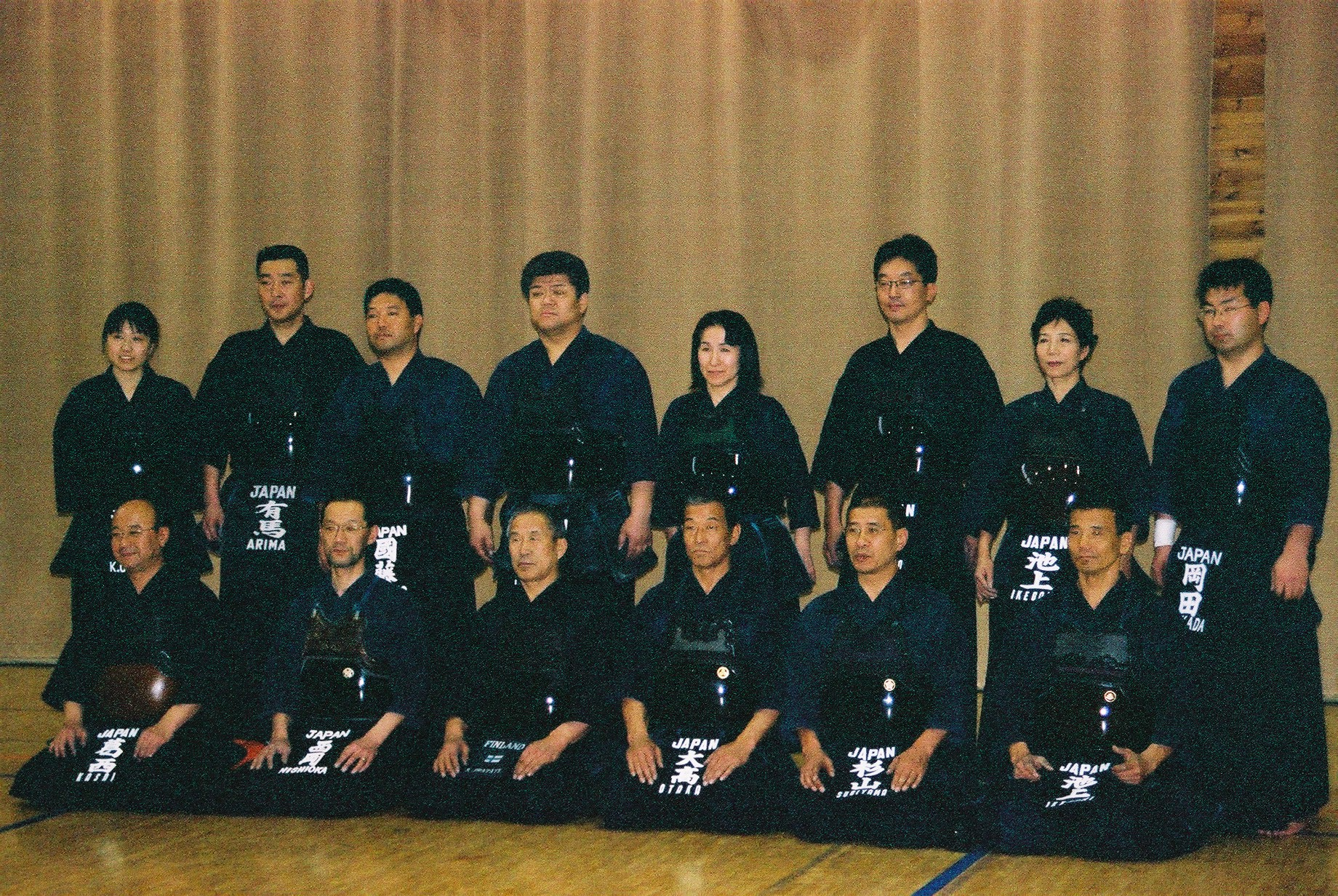 A group of teachers led by sensei Iwatate, visiting Pohja, Finland in 2005